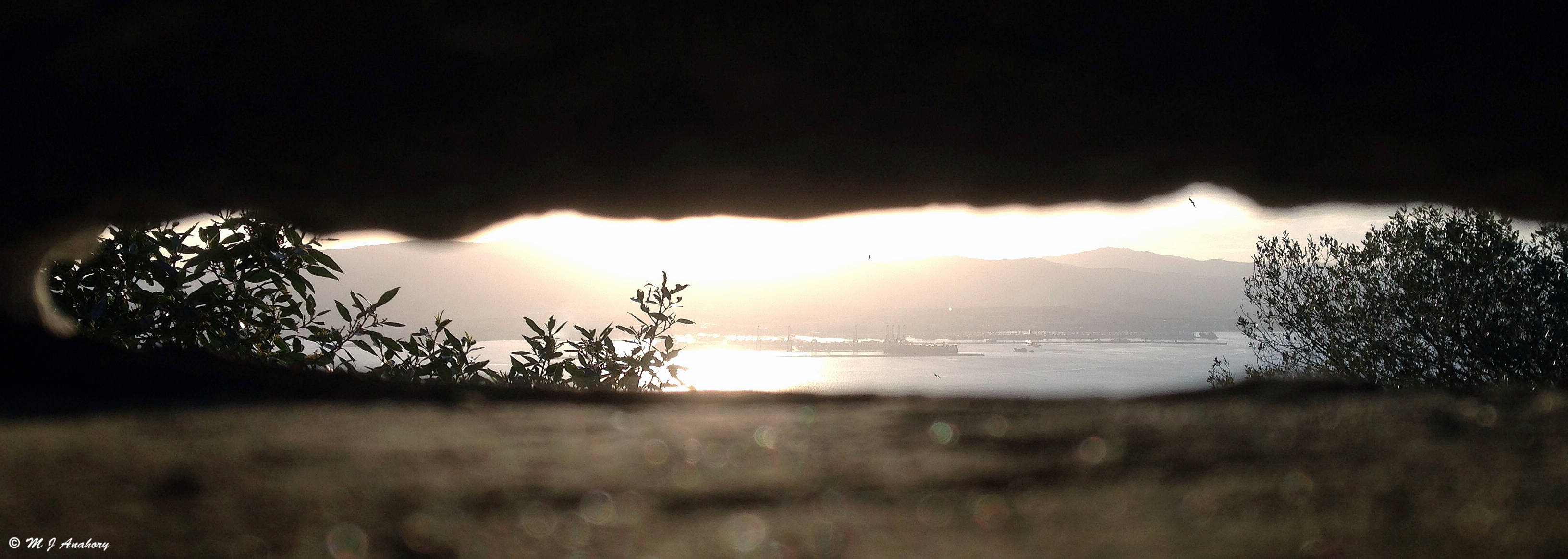 View to Bay of Gibraltar from Western Observation Post (2 cm wide). Operation Tracer was a highly classified British military operation based in Gibraltar during the course of WW II. In 1941, Royal Naval Intelligence decided to establish a covert observation post at Gibraltar that would remain operational even if Gibraltar was captured by the enemy in the event of the Germans activating Operation Felix. Operation Felix was the codename for the plans by the German High Command to capture Gibraltar by an attack from neighboring Spain. It was intended that, from the secret observation post, the movements of enemy vessels in the Straits and Bay of Gibraltar would be reported back to the UK. The decision was made to construct the facility using the existing tunnel system for Lord Airey's Shelter an underground shelter near Lord Airey's Battery. (For more on Lord Airey’s Battery see the set on this Battery within this Photostream). The cave complex comprised living quarters, transmission room, sanitation and dual observation posts. The complex included an observation slit overlooking the Bay of Gibraltar (2 cm wide) and a larger opening over the Mediterranean Sea. Royal Naval Intelligence selected six men for the operation and it was understood that they would remain sealed within the cave complex for about a year or longer with provisions for a seven-year stay assembled in the complex. Operation Tracer was never activated once the risk of Gibraltar falling into enemy hands became increasingly low. More information on Operation Tracer can be found in